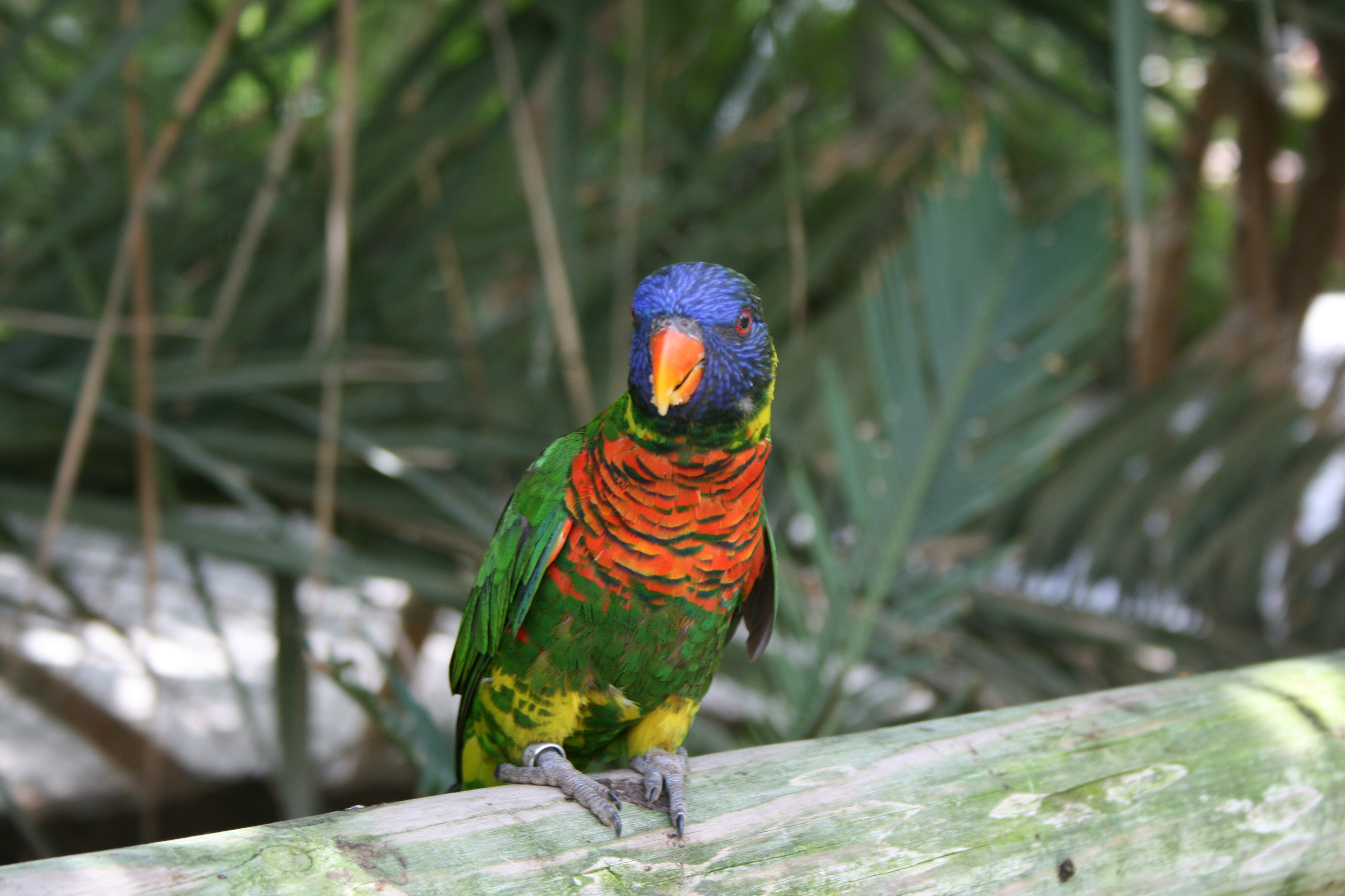 A Rainbow Lorikeet on a fence in Fuengirola Zoo, Málaga, Spain